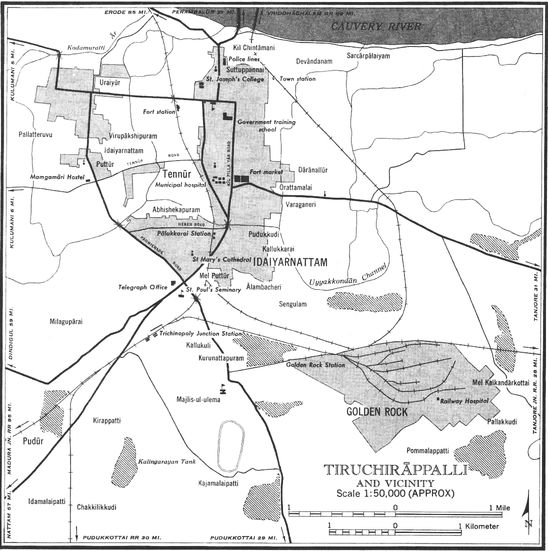 Map of Tiruchirapalli (1955) by U.S. Army Map Service